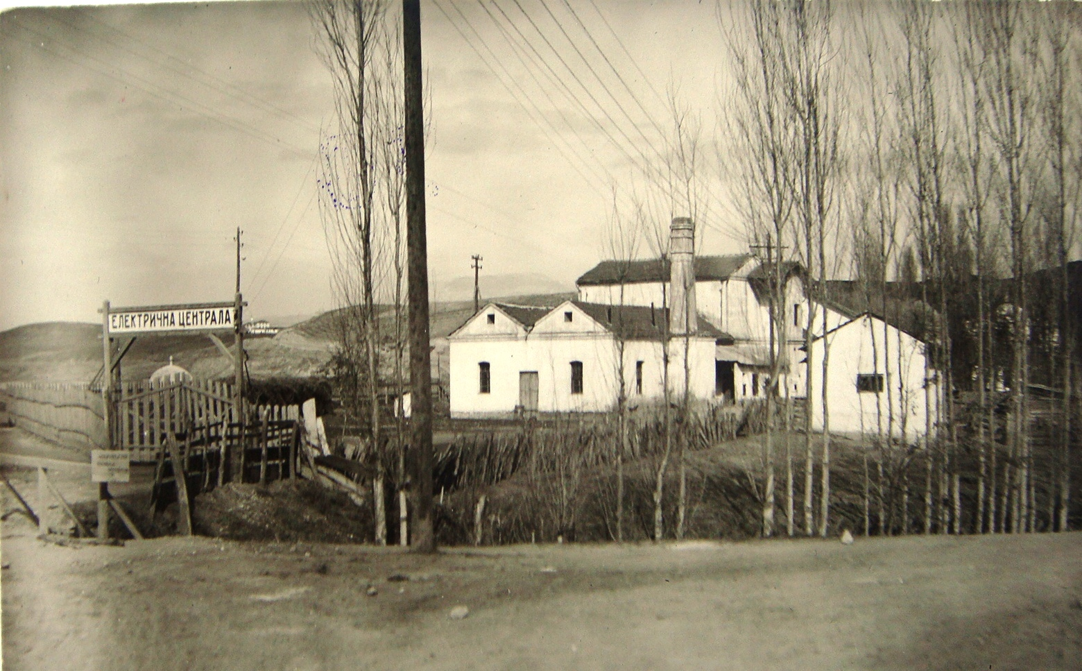 Historical images of Skopje: Electric-power station, Skopje. This media file is produced by Wikipedian in Residence in Category:Wikipedian in Residence at DARM in 2016.